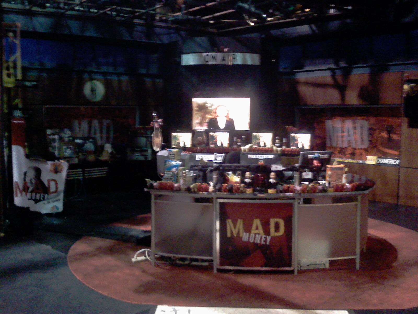 Mad Money Set